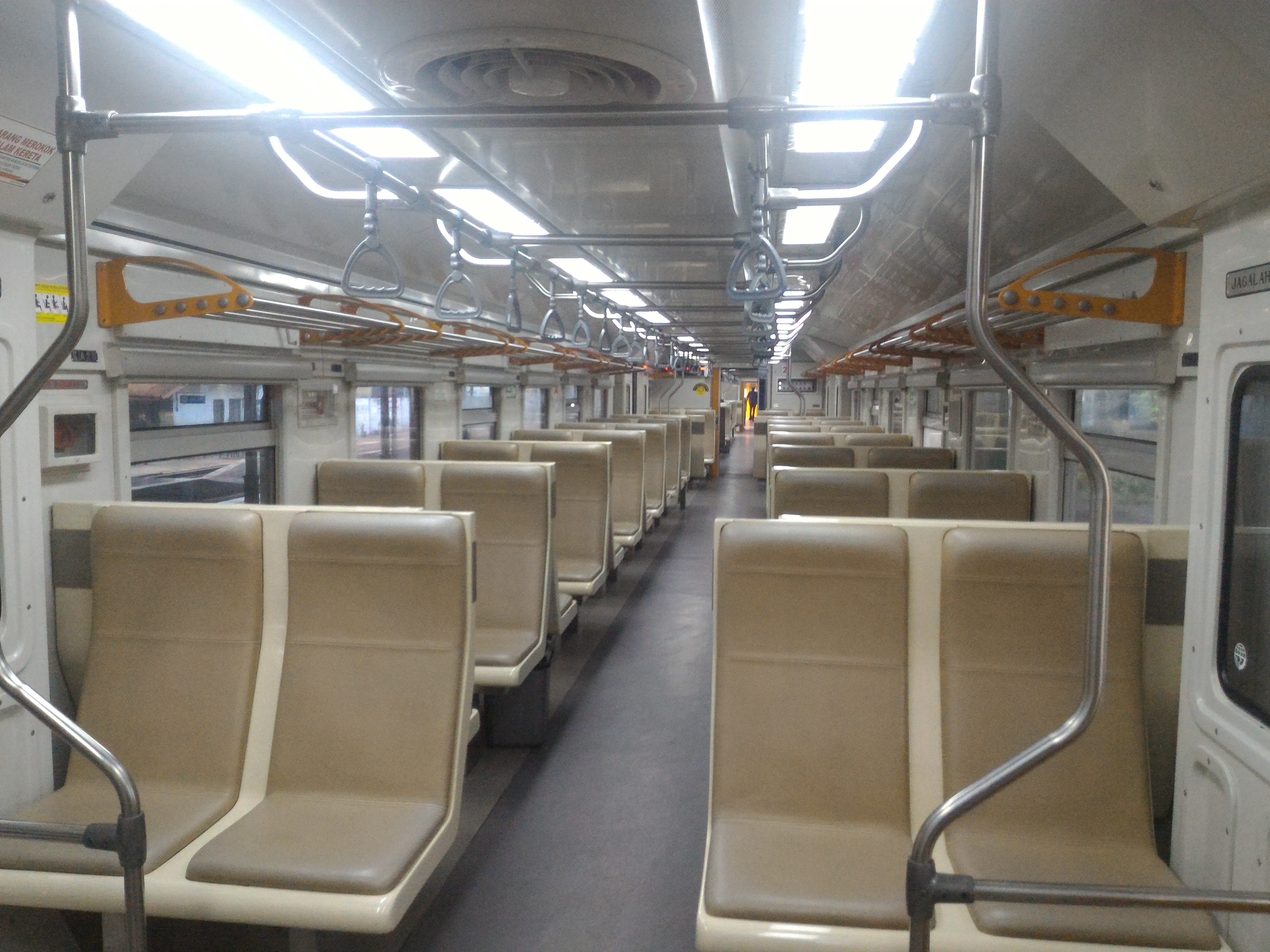 Jenggala 2013 Train Interior